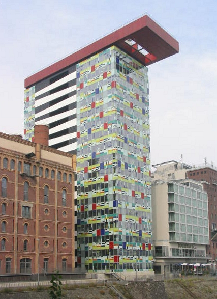 Description: Medienhafen in Düsseldorf. Source: self-made. I release it into the public domain.